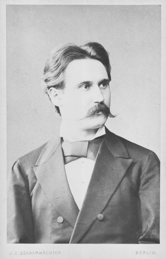 German pianist and composer Franz Xaver Scharwenka (1850—1924)